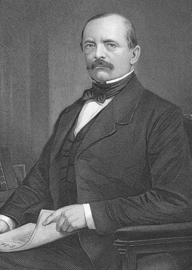 Engraving of Otto von Bismarck, cropped version of Image:Otto von Bismarck.JPG at ratio 0,7 : 1,0